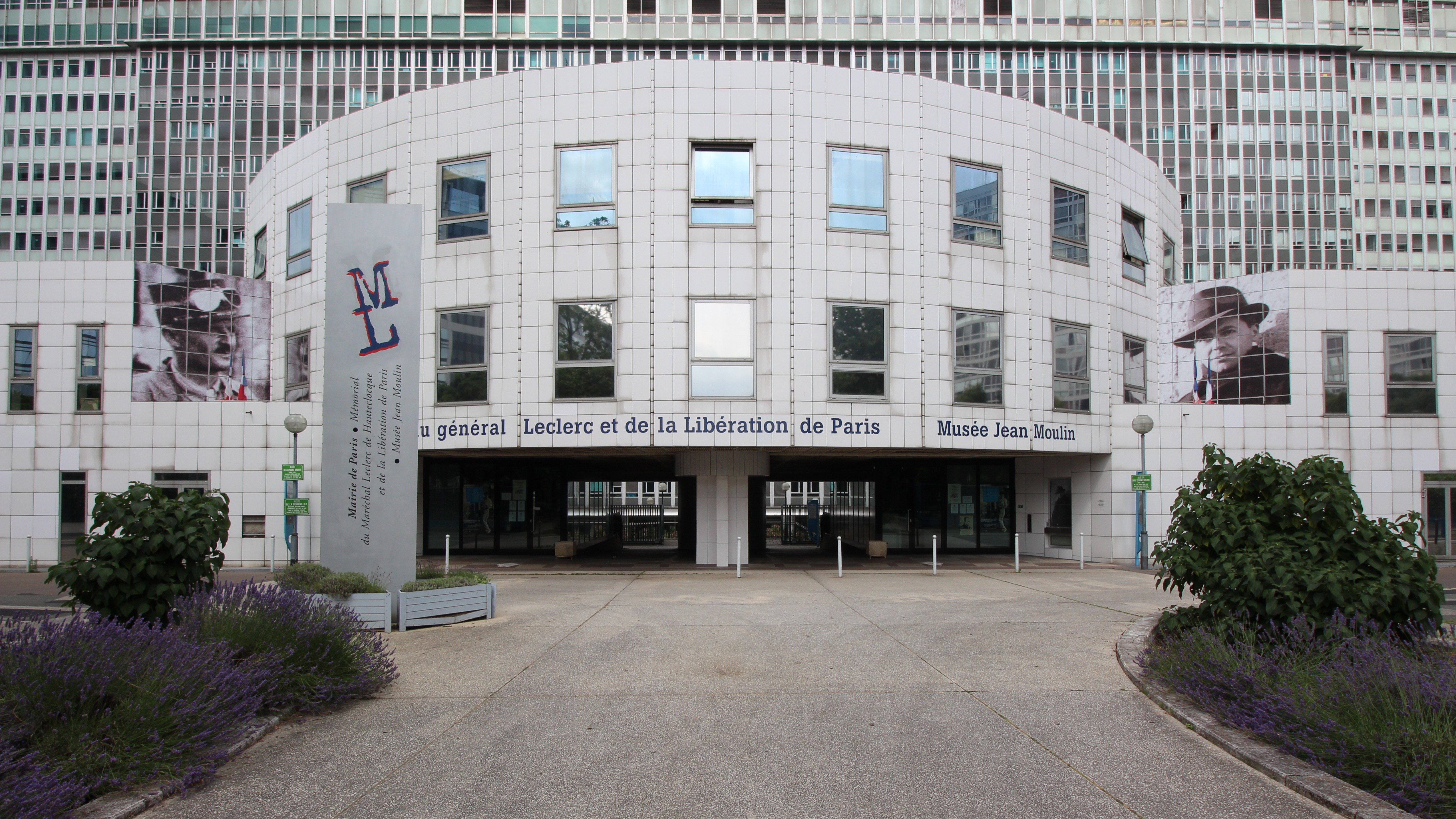 Musée Jean-Moulin. Gare Montmartre. Paris, France